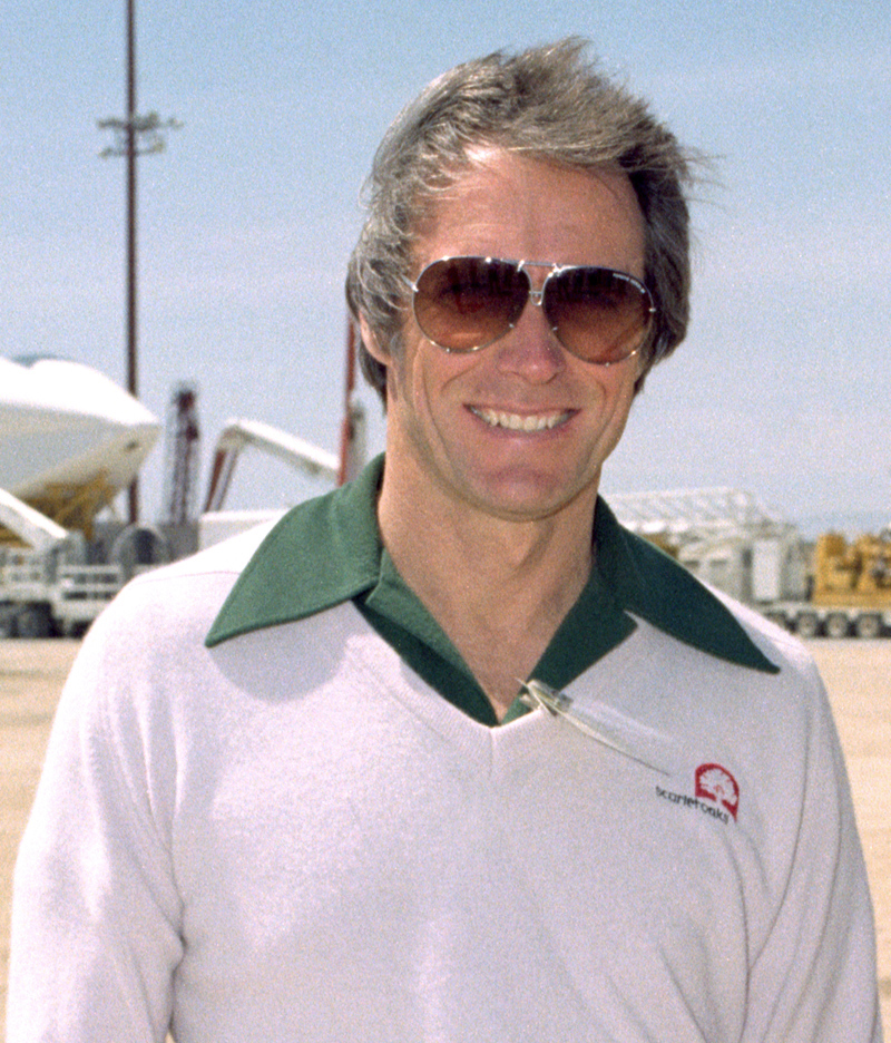 Actor Clint Eastwood near the Space Shuttle Columbia shortly after it had completed its first orbital flight in 1981 -cropped from original